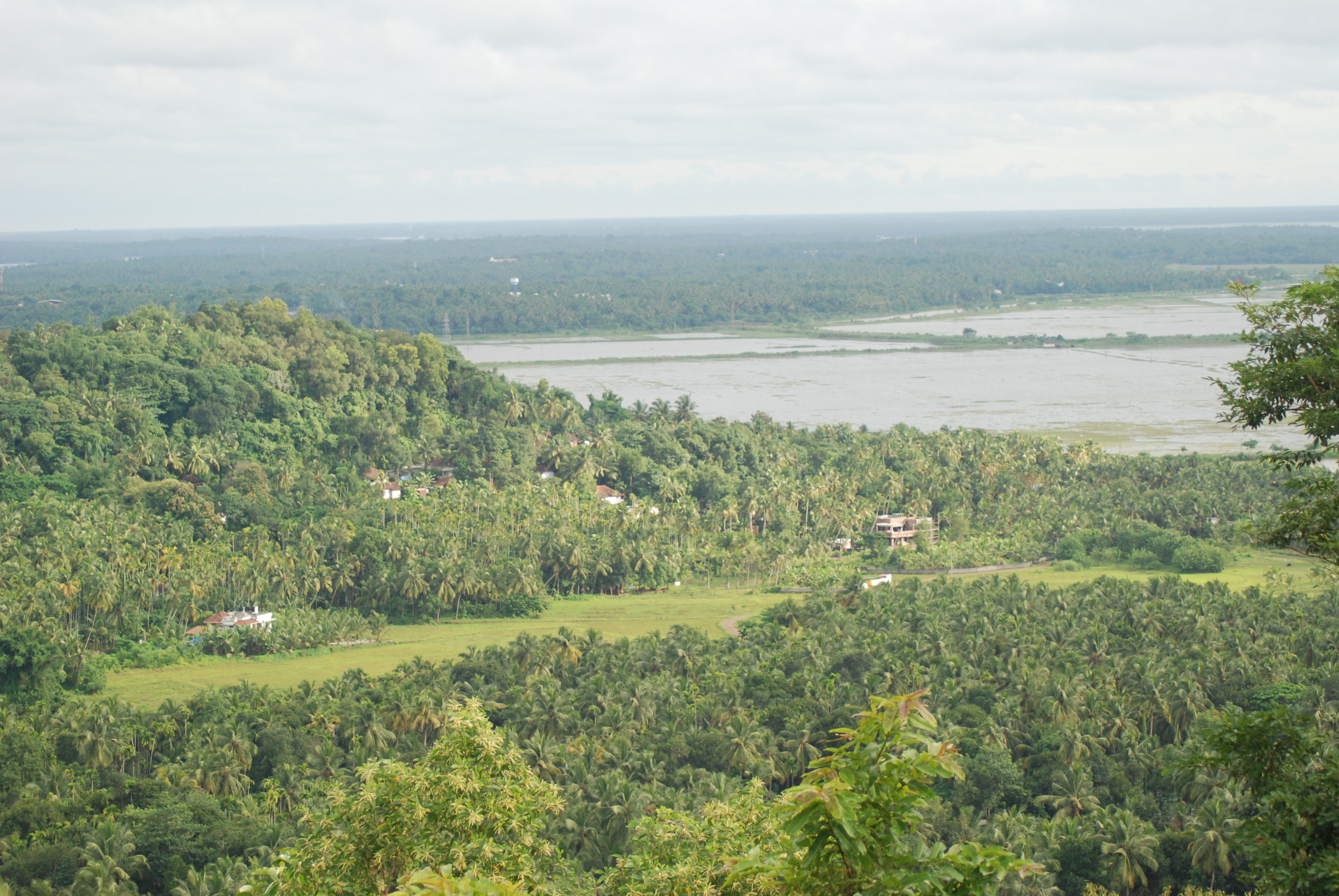 The view of the beautiful puzhakkla paadam from Vilangan Hills in August